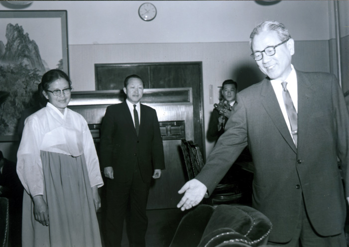 Chang Myon and Jeon Sun-ae